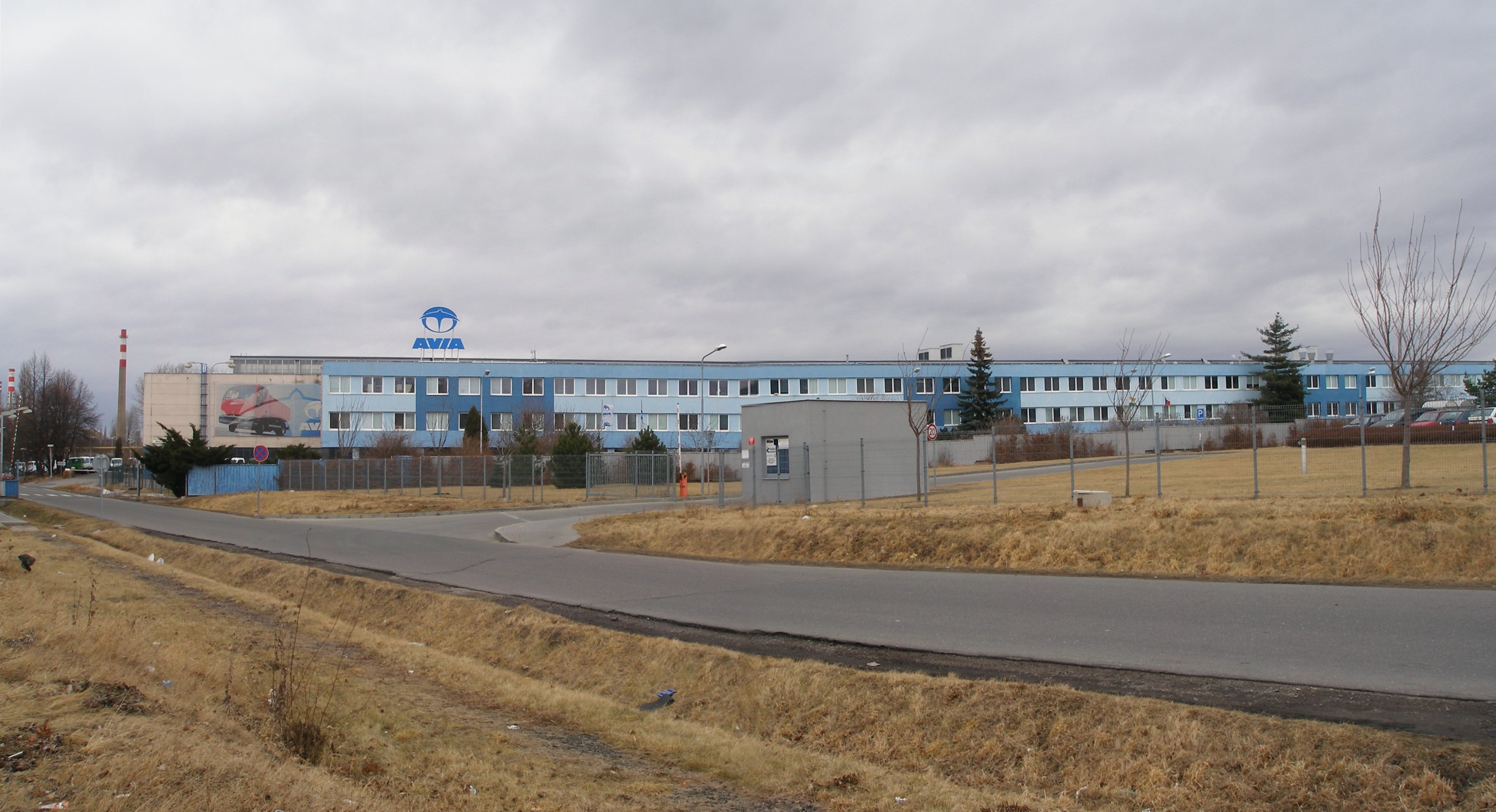 Factory of Avia Letňany, Prague